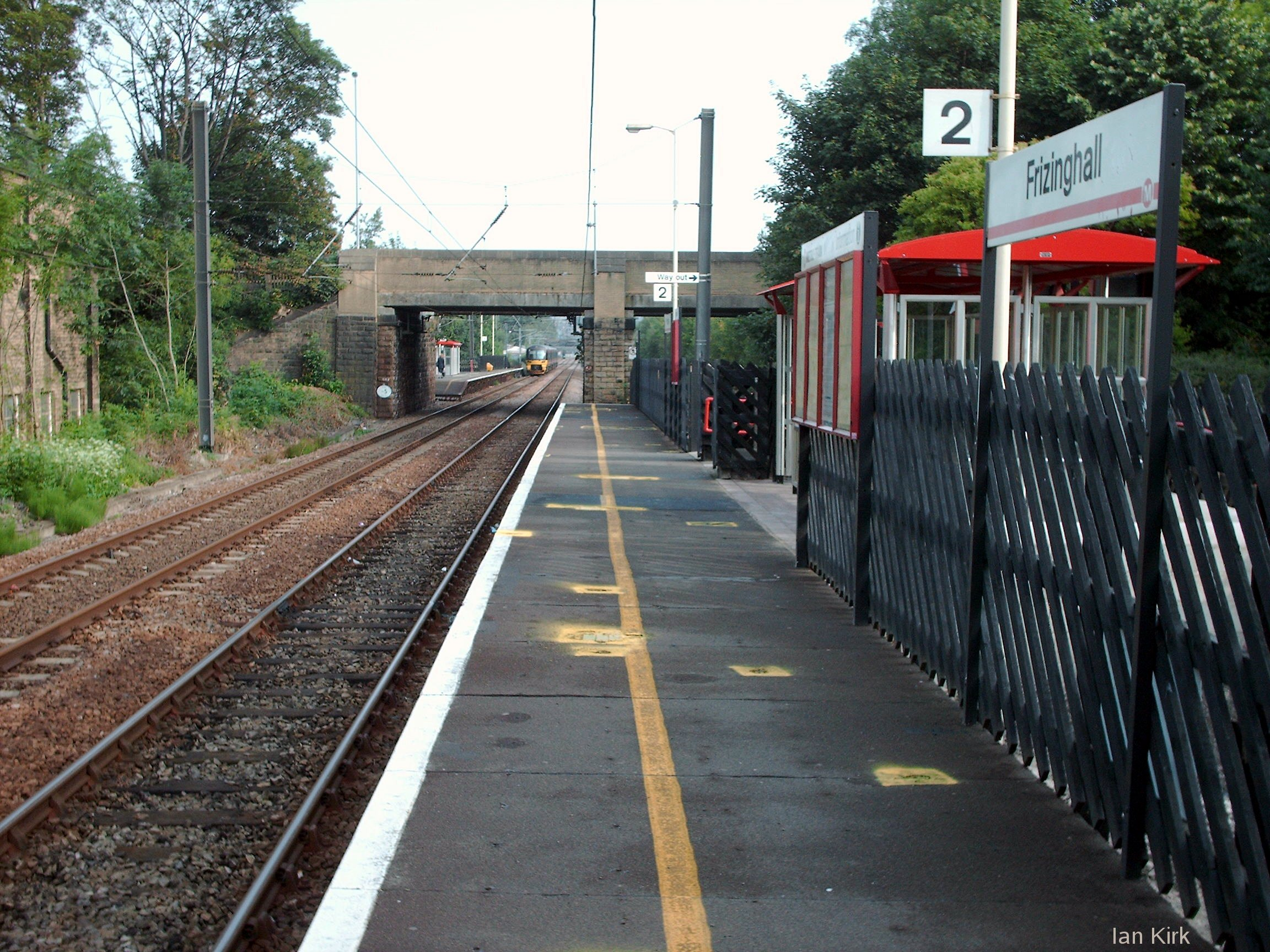 Frizinghall railway station, West Yorkshire, England. Platform 1. 333016 departing.